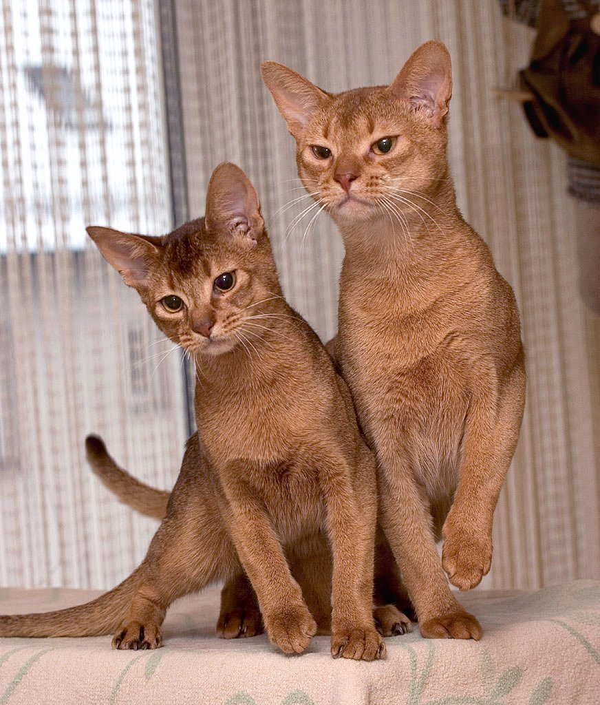 Abyssinian cats. «We're brother cats. We fight a little.»